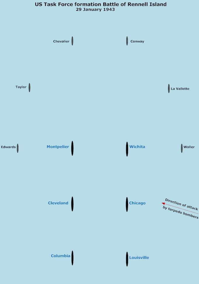 Drawing of US ship formation, Battle of Rennell Island